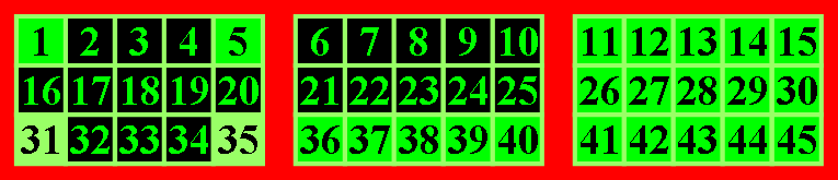 Game board for the original GoBingo game.